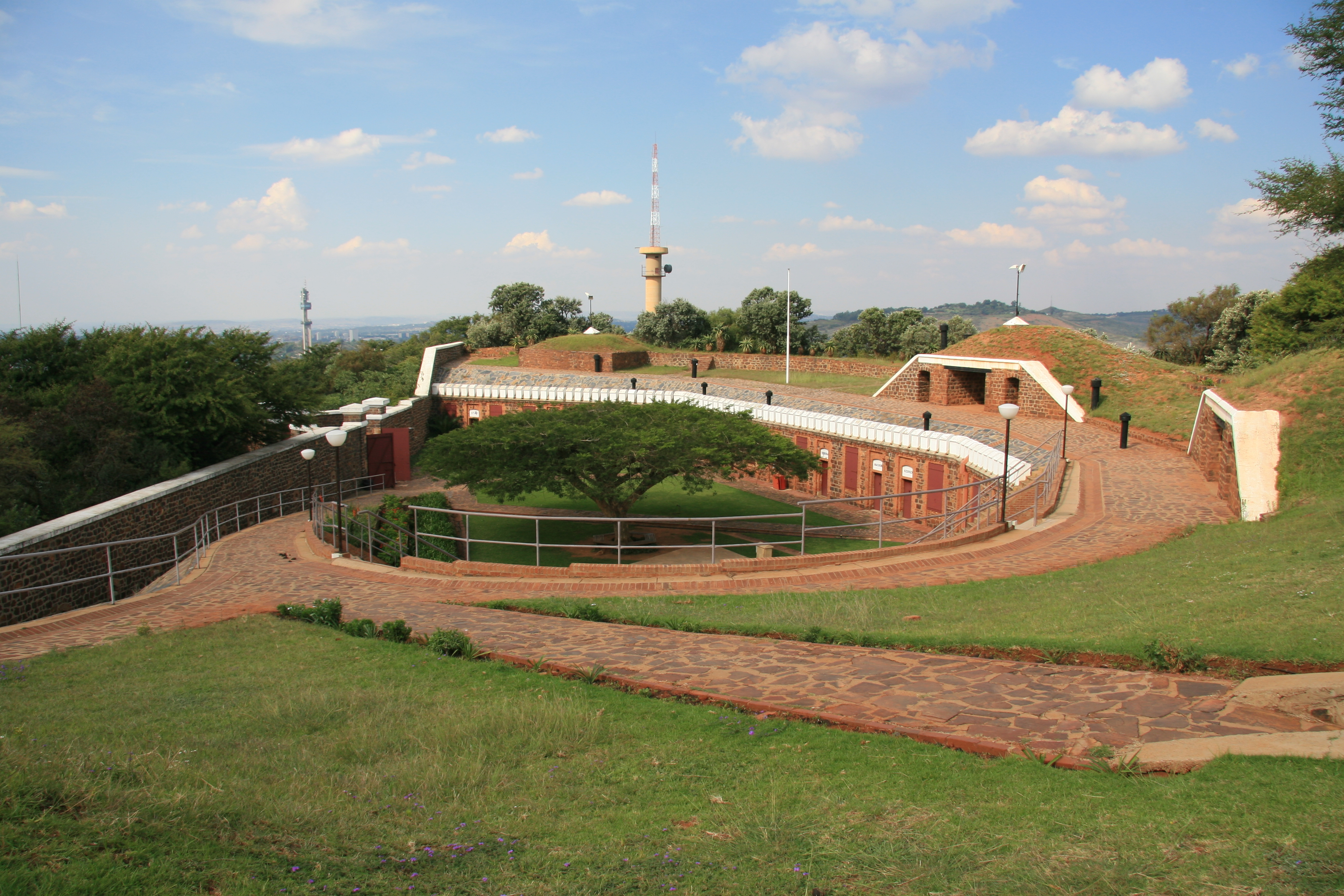 Fort Schanskop near Pretoria. Full view of the fort taken from the current entrance for visitors.